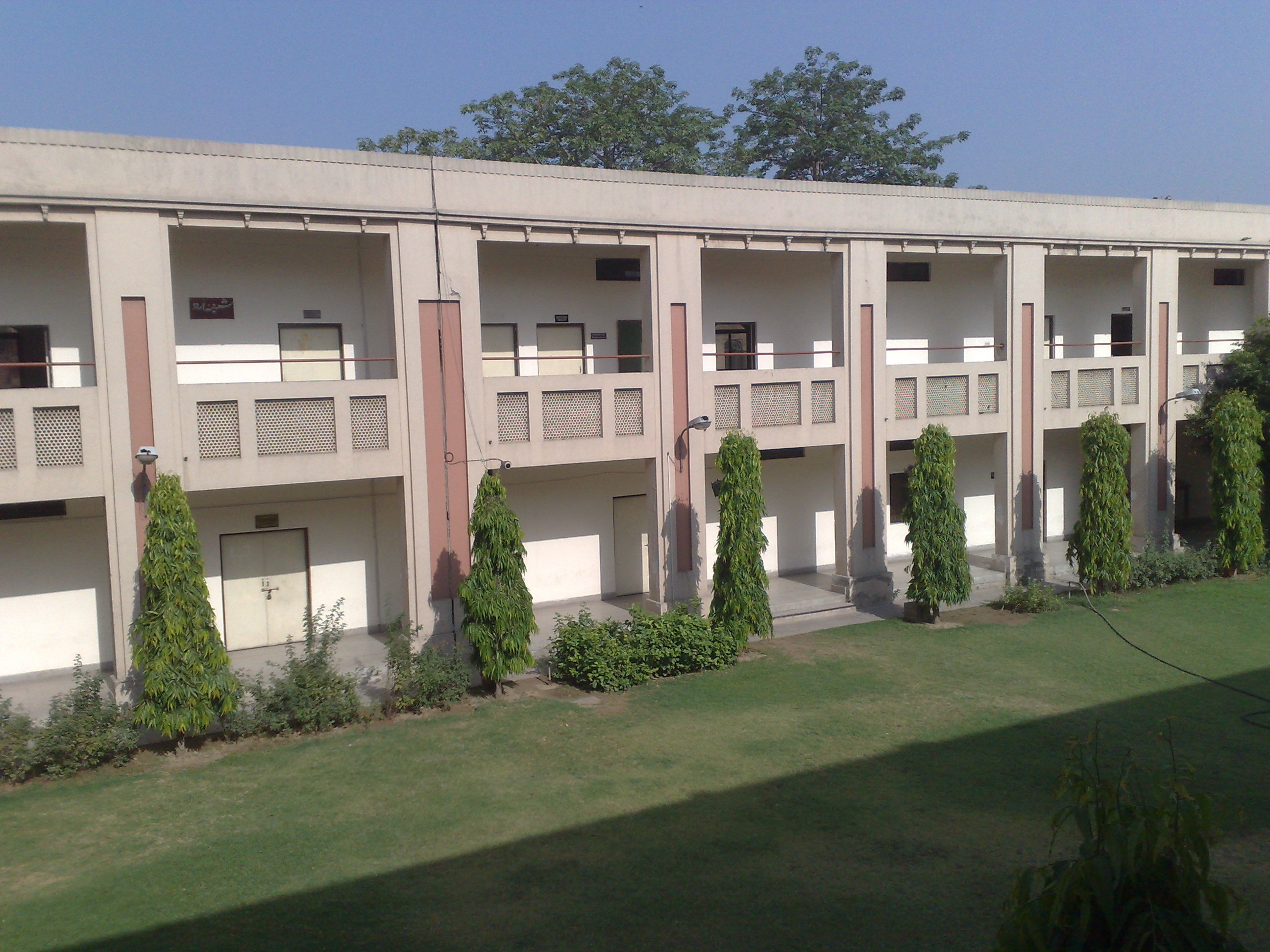 Inside of Postgraduate Block - Govt. M.A.O College Lahore